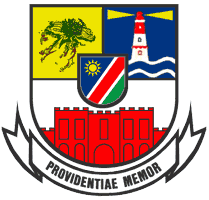 New Coat of Arms of Swakopmund since mid July 2009